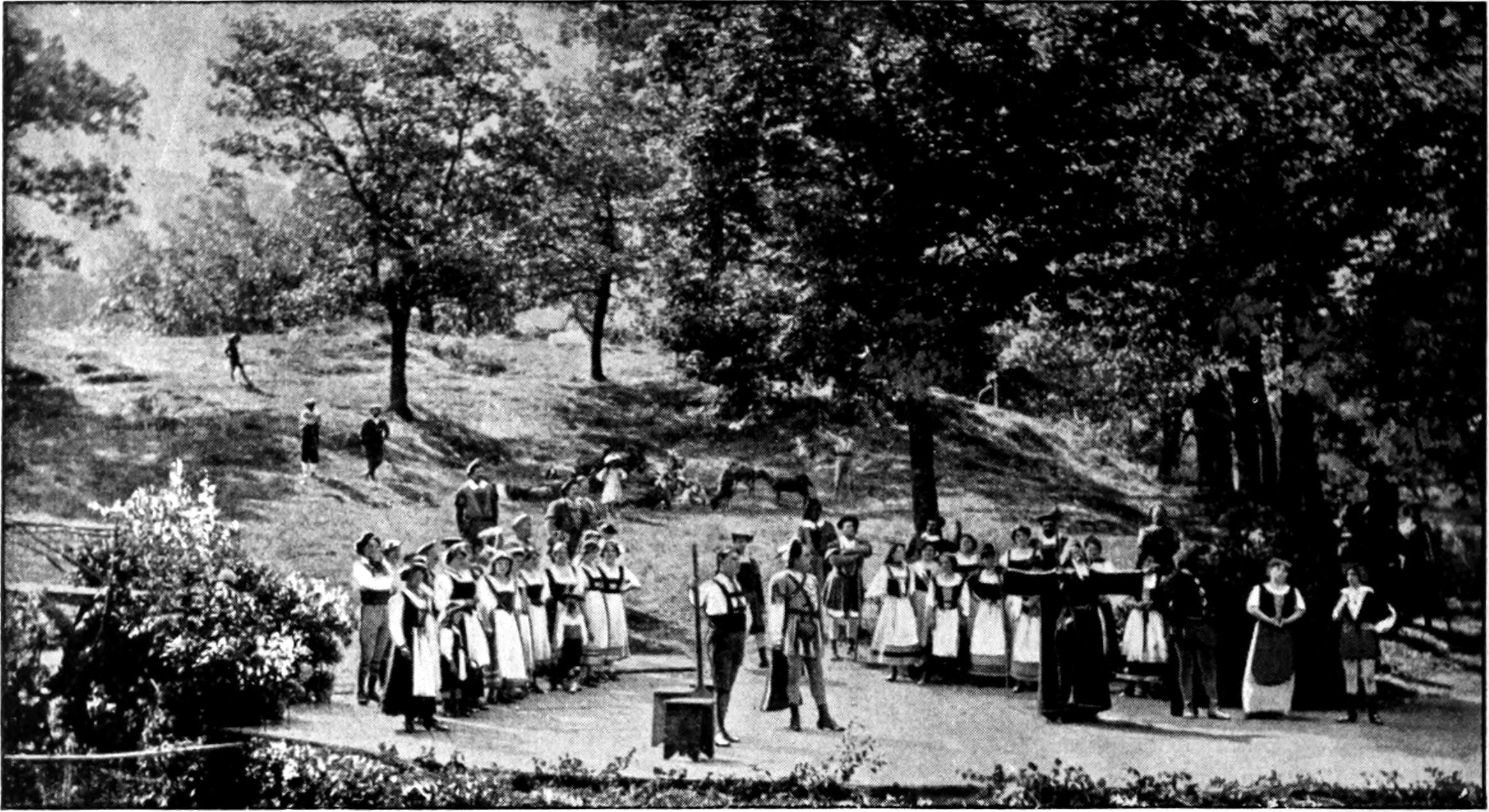 Rossini - Guillaume Tell - Scene from the pastoral production at Canterets, France Title: The Victrola book of the opera : stories of one hundred and twenty operas with seven-hundred illustrations and descriptions of twelve-hundred Victor opera records Year: 1917 (1910s) Authors: Victor Talking Machine Company Rous, Samuel Holland Subjects: Operas Publisher: Camden, N.J. : Victor Talking Machine Co. Text Appearing Before Image: VICTROLA BOOK OF THE OPERA—ROSSINIS WILLIAM TELL Text Appearing After Image: SCENE FROM THE PASTORAL PRODUCTION AT CANTERETS, FRANCE The young man hesitates between duty to his country and his love for the tyrantsdaughter, but finally casts his lot with Tell, and goes to bid a last farewell to Matilda. The festival now begins, but is interrupted at intervals by the sound of hunting horns,showing that Gessler and his huntsmen are in the mountains near by. The young couplesare wedded, and all are rejoicing in their happiness when the festival is rudely inter-rupted by Leuthold, a shepherd, who rushes in crying, Save me from the tyrant. Heexplains that one of Gesslers officers had abducted his daughter, and to rescue her hehad killed the villain. He begs the fishermen to row him across the lake to safety. Theyrefuse, not daring to offend the tyrant, and because of the storm which is raging. Tellappears, rushes to the boat with Leuthold and puts out on the raging lake just as thesoldiers of Gessler appear. Baffled of their revenge, they burn the village, devastate